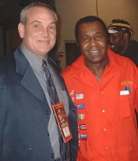 Keith Terceira and Emanual Steward